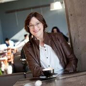 A photograph of photographer Stacie Huckeba.